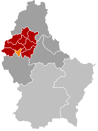 Neunhausen municipality location (valid until 1 January 2012). Own edit of Kanton WiltzLocatie.png